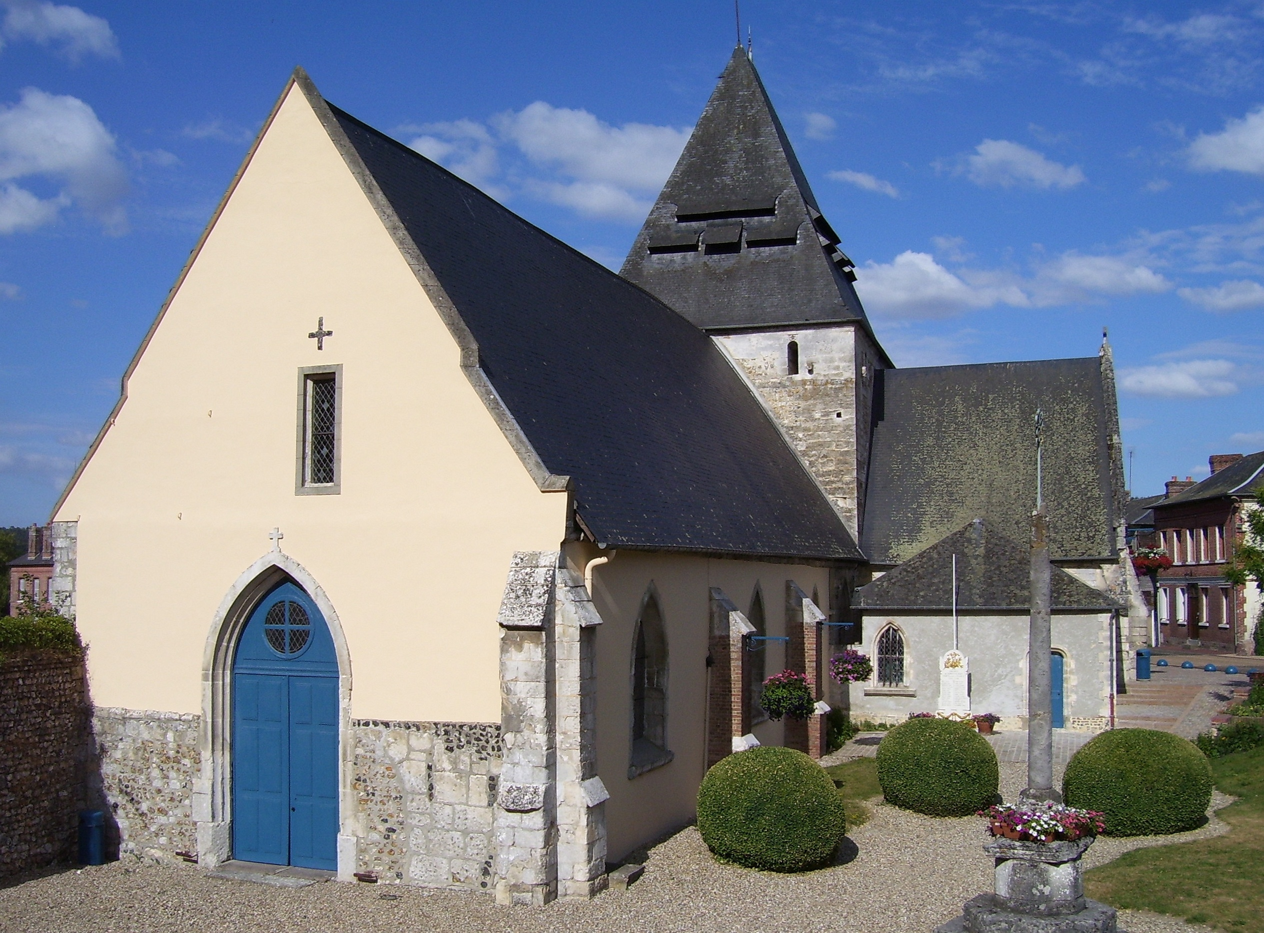 Church Saint-Ouen of Saint-Philbert-sur-Risle (Eure, France).